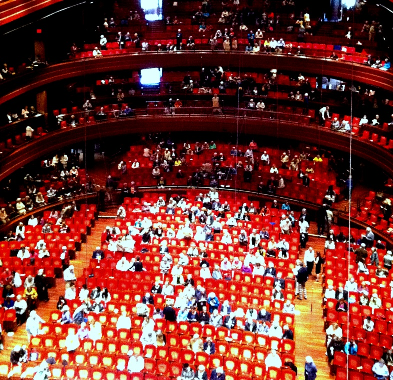 Interior of Verizon Hall at Intermission of the Philadelphia Orchestra matinee Concert on May 15, 2015.